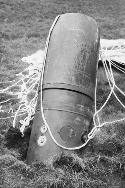 A close up view showing the access panels and fusing mechanisms on a parachute deployed, German magnetic mine, which appears to have landed on the grounds of the Woolwich, Arsenal. The mine is intact and is partially buried nose first in the soft ground. The top section above the flange, contained the parachute. This image is from the collection of Lieutenant (Lt) Hugh Randall Syme, GC, GM and bar, Royal Australian Naval Volunteer Reserve who was based at HMS Vernon, Portsmouth, from 1940 to 1942. Lt Syme rapidly developed a reputation for bravery, especially in delousing the unfamiliar German magnetic mines. He was awarded the George Cross and the George Medal and Bar for a string of successful mine recoveries. In January 1943 he returned to Australia and was appointed as the Commanding Officer of a bomb disposal section at HMAS Cerberus. He left the Navy in 1944, returning to the family business of running The Age newspaper in Melbourne.